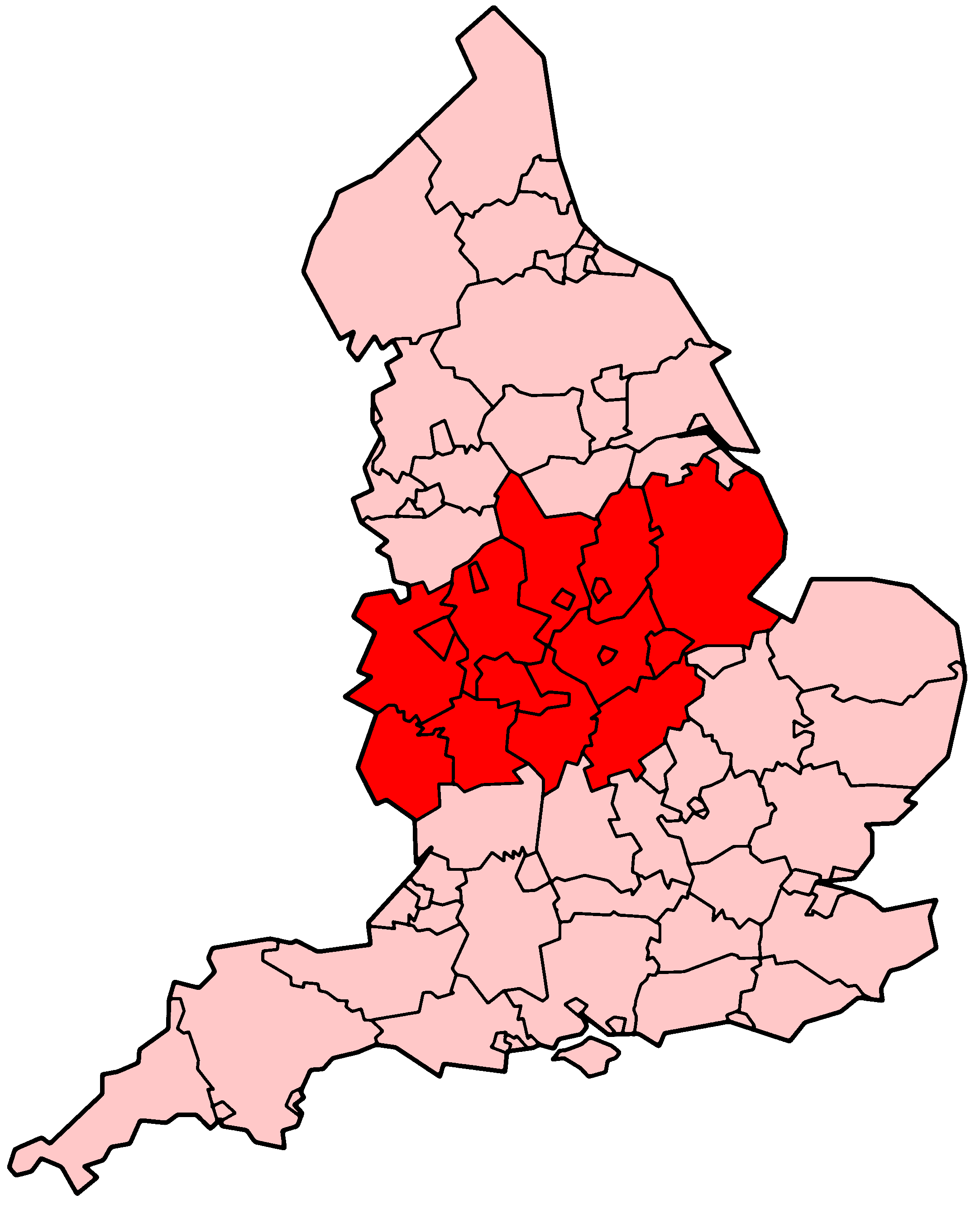 Map showing the two Government Office regions of West Midlands and East Midlands.